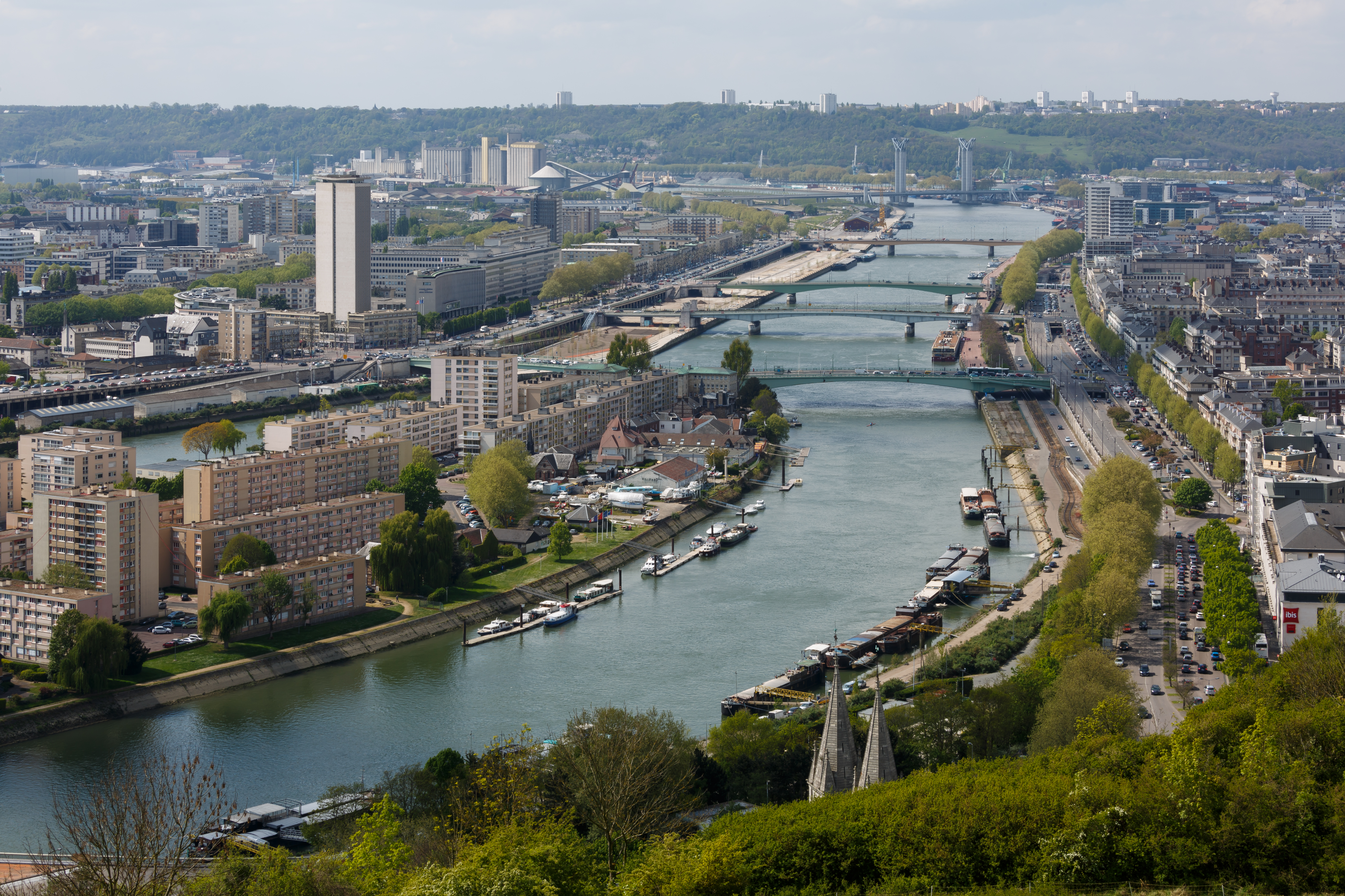 Rouen, France: Cityscape of Rouen, taken from "La Corniche" showing the River Seine